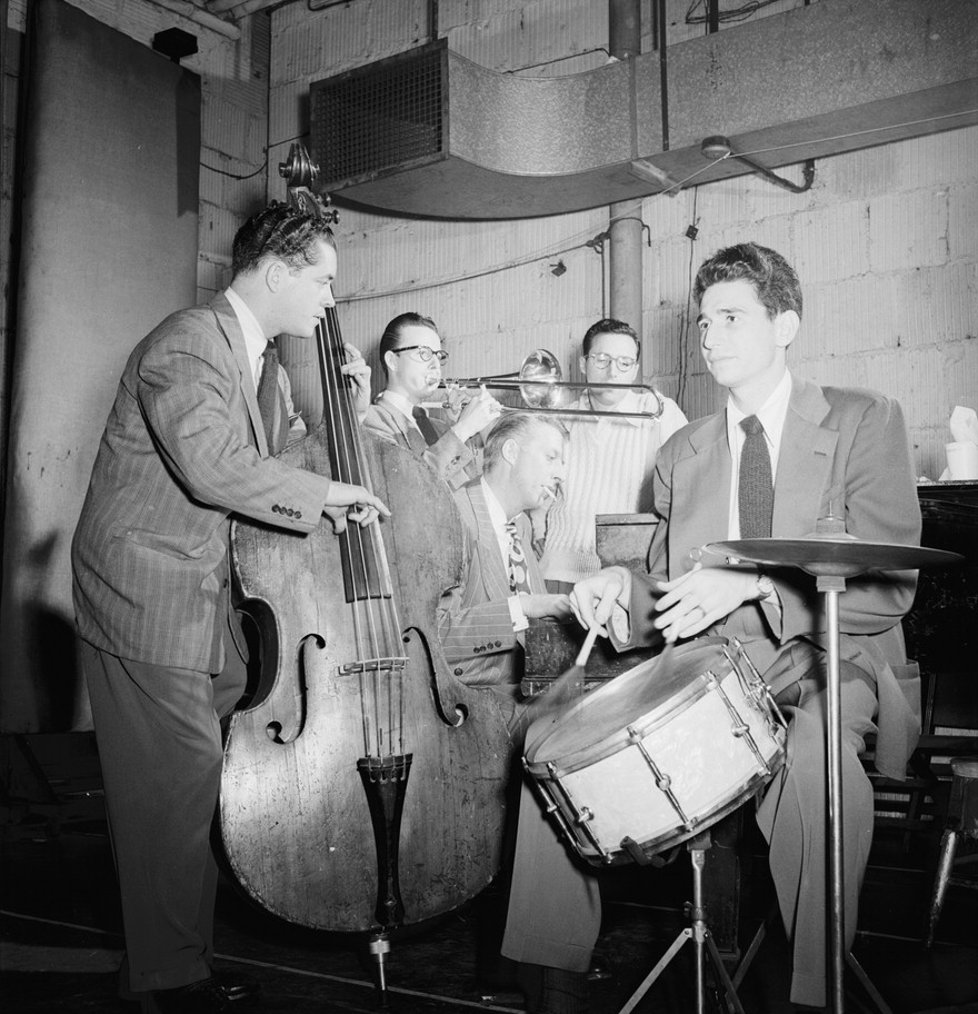 Eddie Safranski, Kai Winding, Stan Kenton, Pete Rugolo, and Shelly Manne, ca. Jan. 1947 (Photograph by William P. Gottlieb)